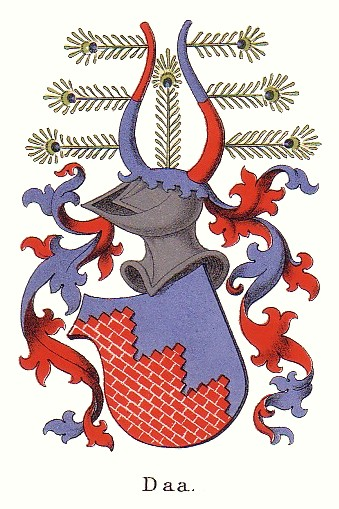 Coat of arms of the Daa family